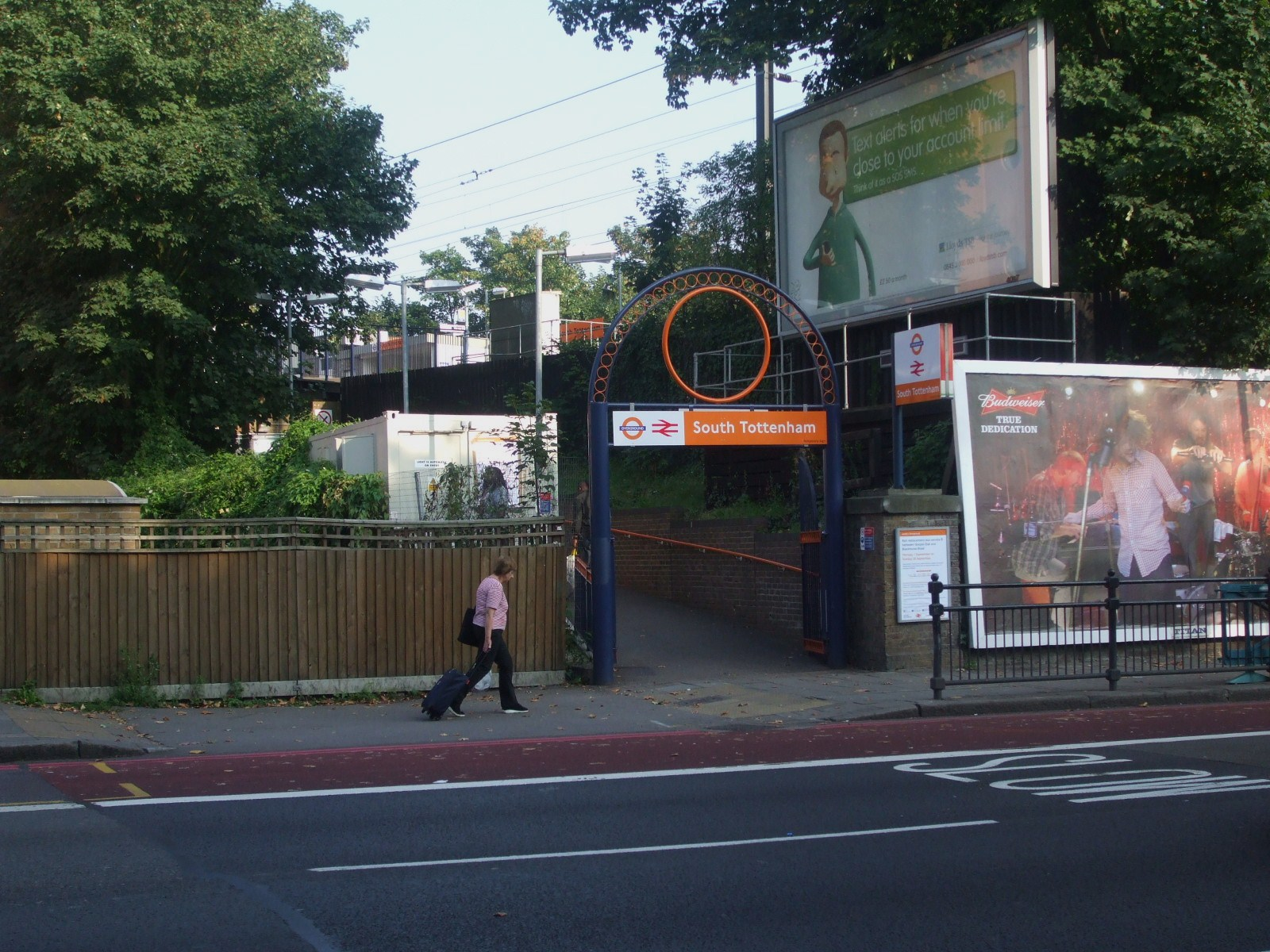 South Tottenham station entrance, in Overground colours. Temporary sign as of summer 2008.